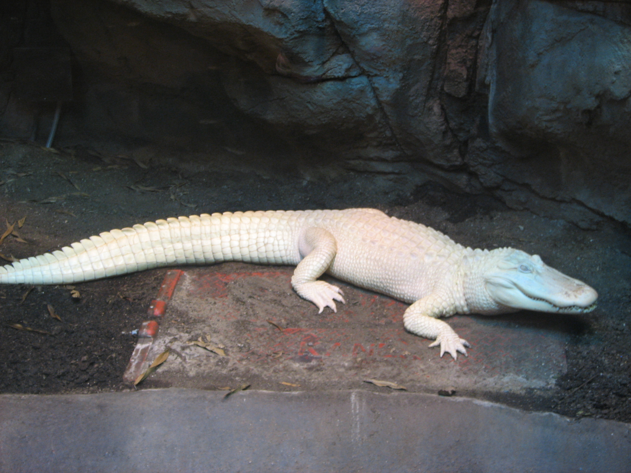 American Alligator